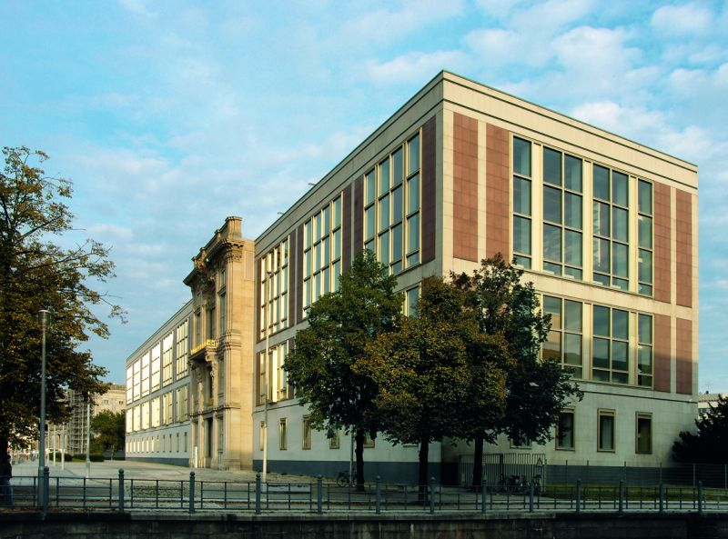 The Staatsratsgebäude was built in the years 1962 to 1964 to house the State Council of the GDR. It is located at Schloßplatz 1 (to 1994, Marx-Engels-Platz) in Berlin's Mitte district.